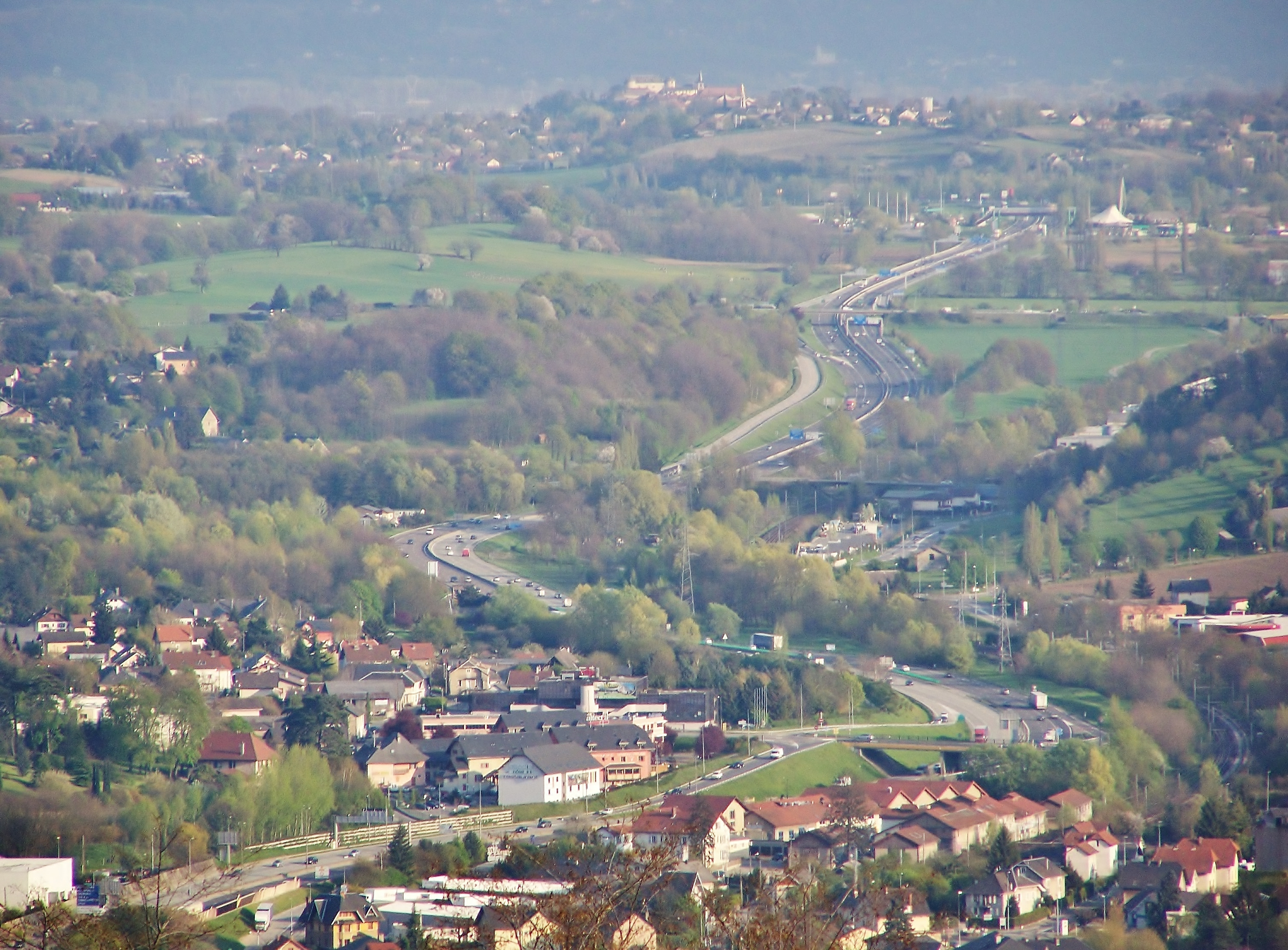 View of road RN 201 and A43 in the Chambéry area in Savoie, France.